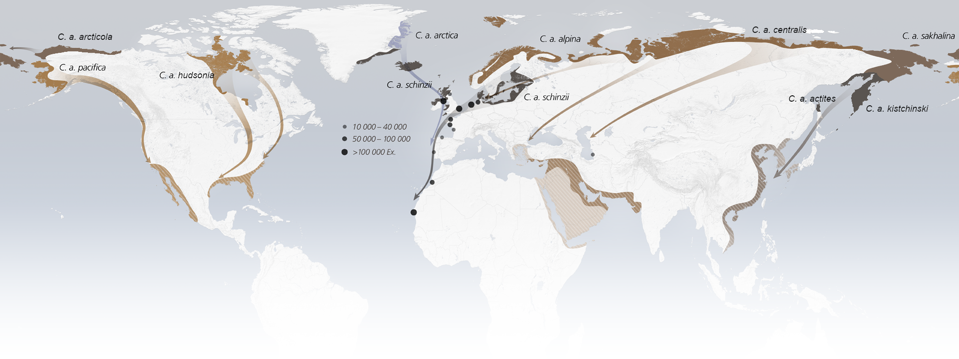 Distribution, subspecies, migration patterns and European wintering areas of the Dunlin (Calidris alpina)